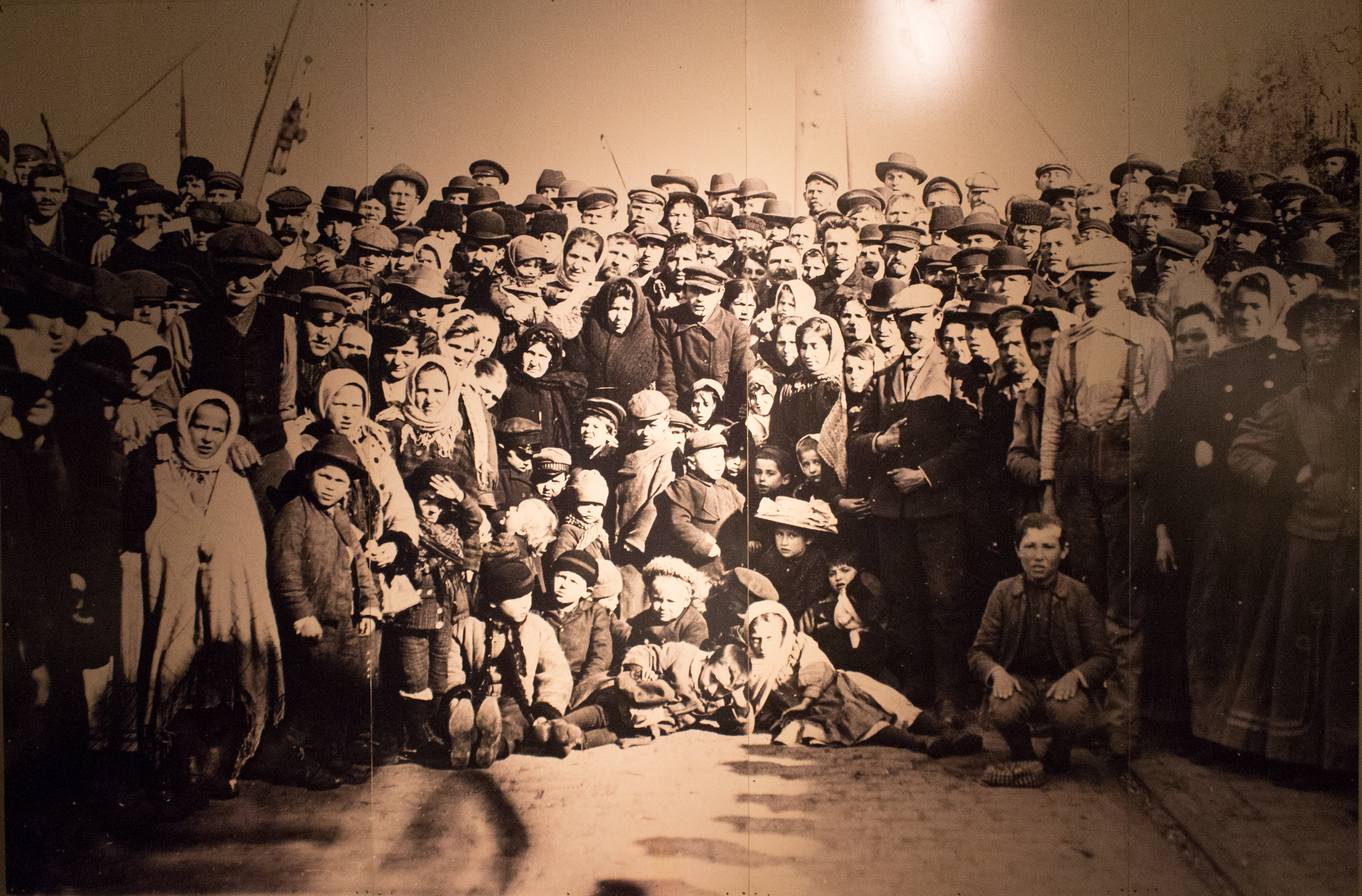 Taken during a guided tour of Hotel New York, Rotterdam